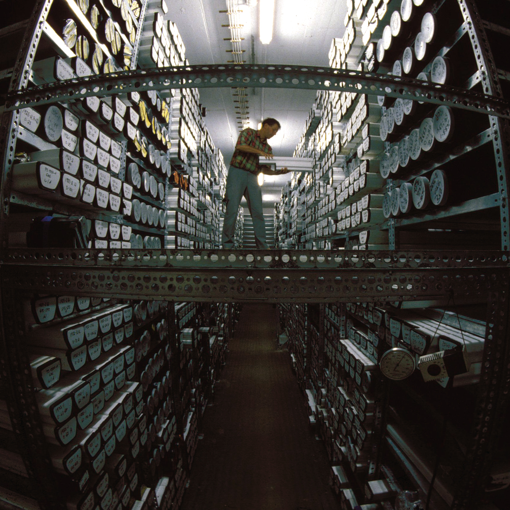 Geological core repository for sediment samples (POLARSTERN core repository, Alfred Wegener Institute for Polar and Marine Research, Bremerhaven)